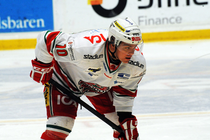 Norwegian ice hockey player Per-Åge Skrøder of MODO Hockey